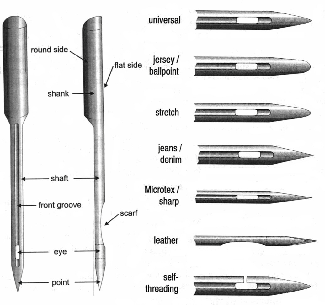 Diagram of several types of sewing machine needles covering their terminology and tip types